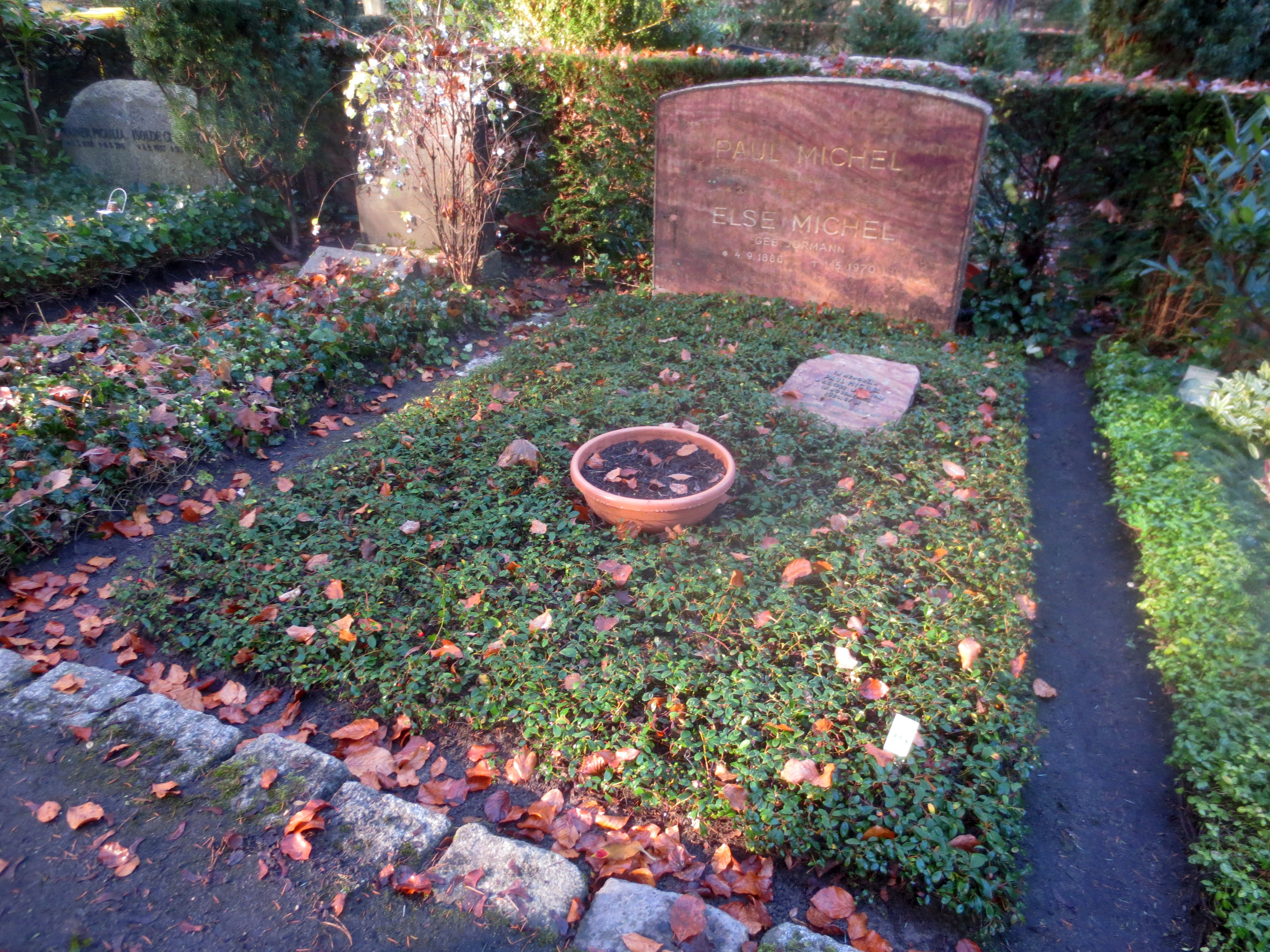 Grave of the architect Paul Michel (1877-1938) on the Friedhof Heerstraße cemetery in Berlin-Westend (grave site: 16-F-3).